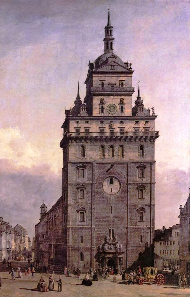 before it was destroyed 1760